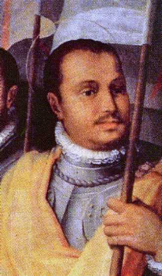 The Medici depicted as the Holy Family, by Giovanni Maria Butteri, 1575. Detail showing Paolo Giordano I Orsini (1541–1585).